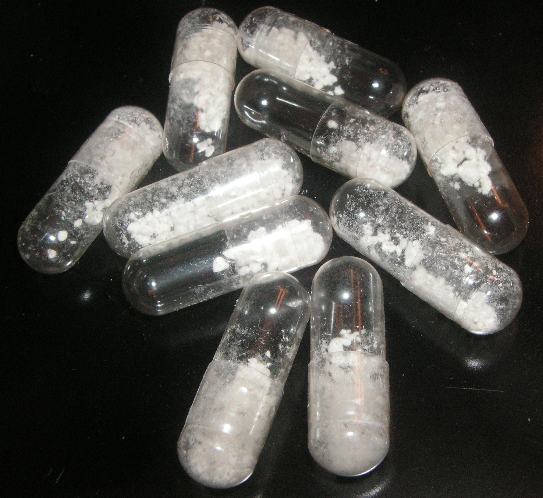 Ten 20mg size 00 capsules filled with 2CE